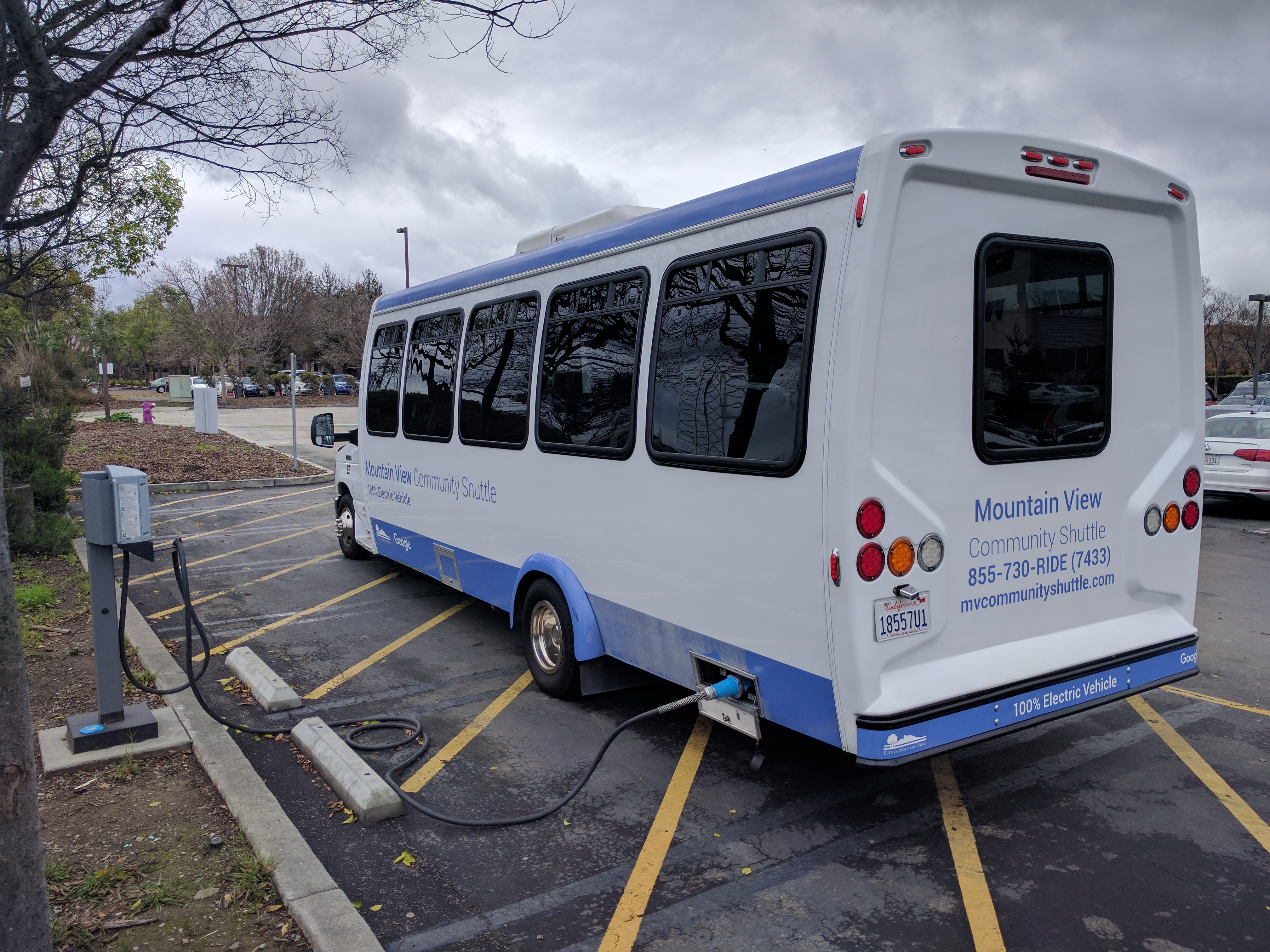 An electric shuttle bus charging in Mountain View, California.